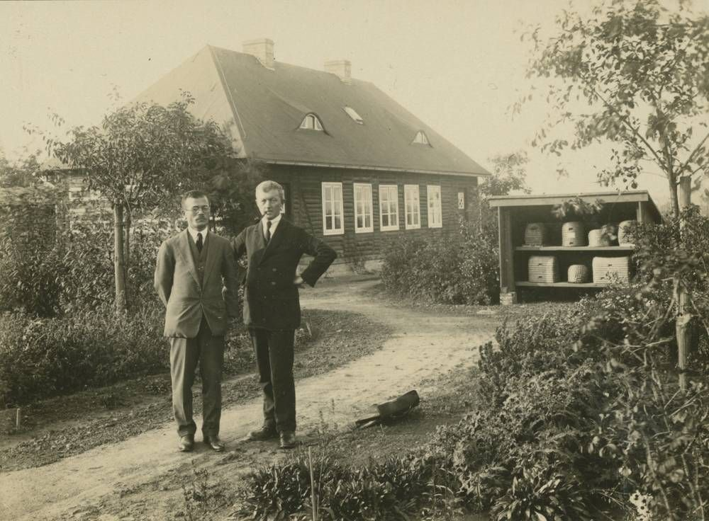 Ludwig Armbruster and Yoshinobu Tokuda in front of the scientific Institute in Dahlem (Berlin) around 1930